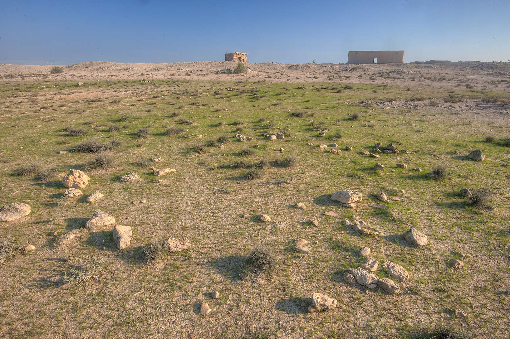 Green area Green depression behind Jabal Al Jassasiya near Umm Al Gharaneej, Qatar.